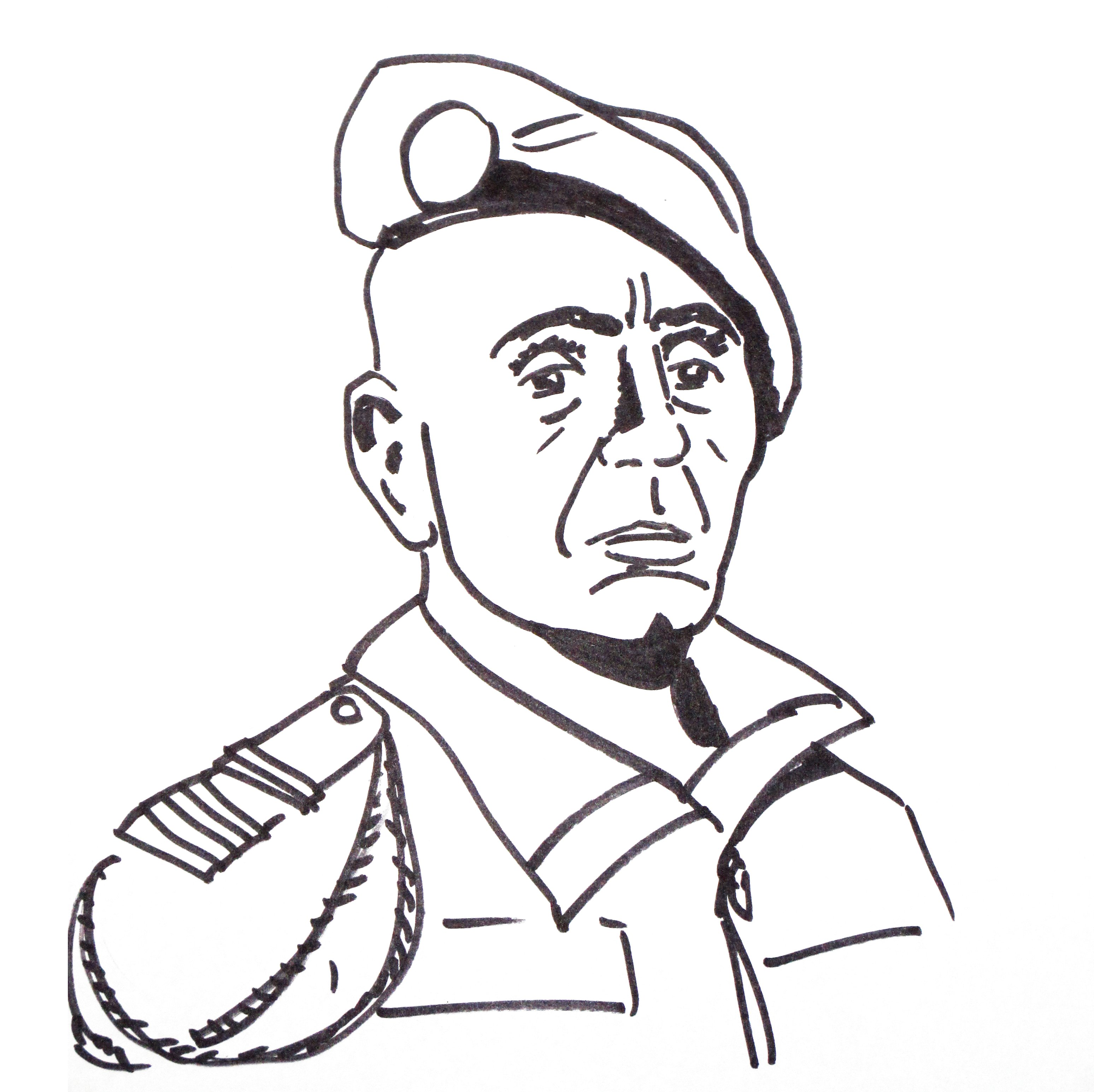 Marcel Bigeard